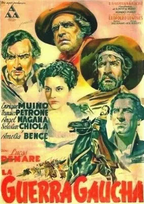 Movie poster for Argentine film The Gaucho War ("La Guerra Gaucha").